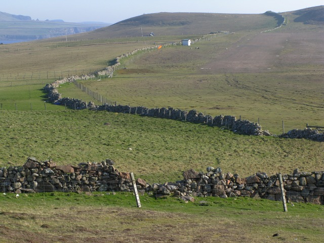 View towards Papa Stour Airstrip The cleared and smoothed ground in the upper right of the image is the airstrip for Papa Stour which is located in HU1759.